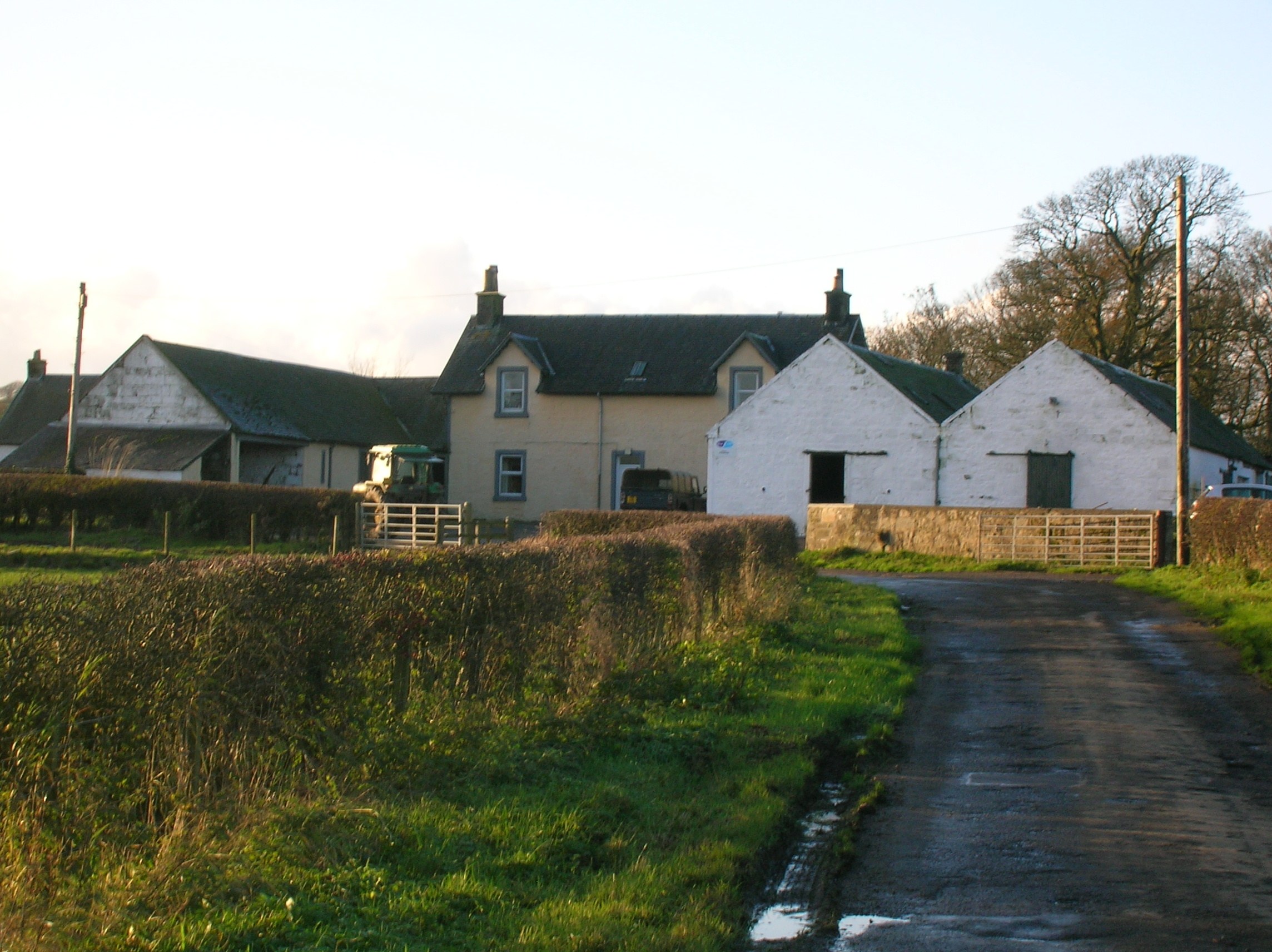 Polnoon Farm, Eaglesham, East Refrewshire, Scotland.